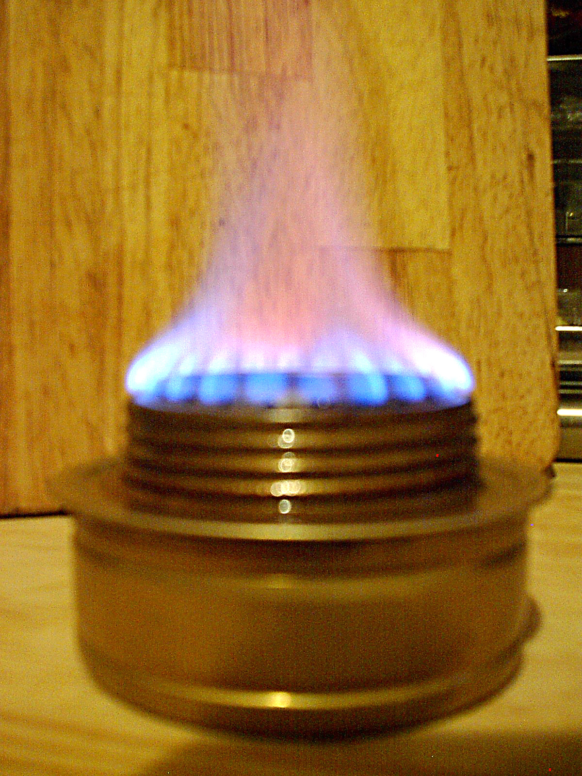 burner of a Trangia portable stove running with ethyl alcohol